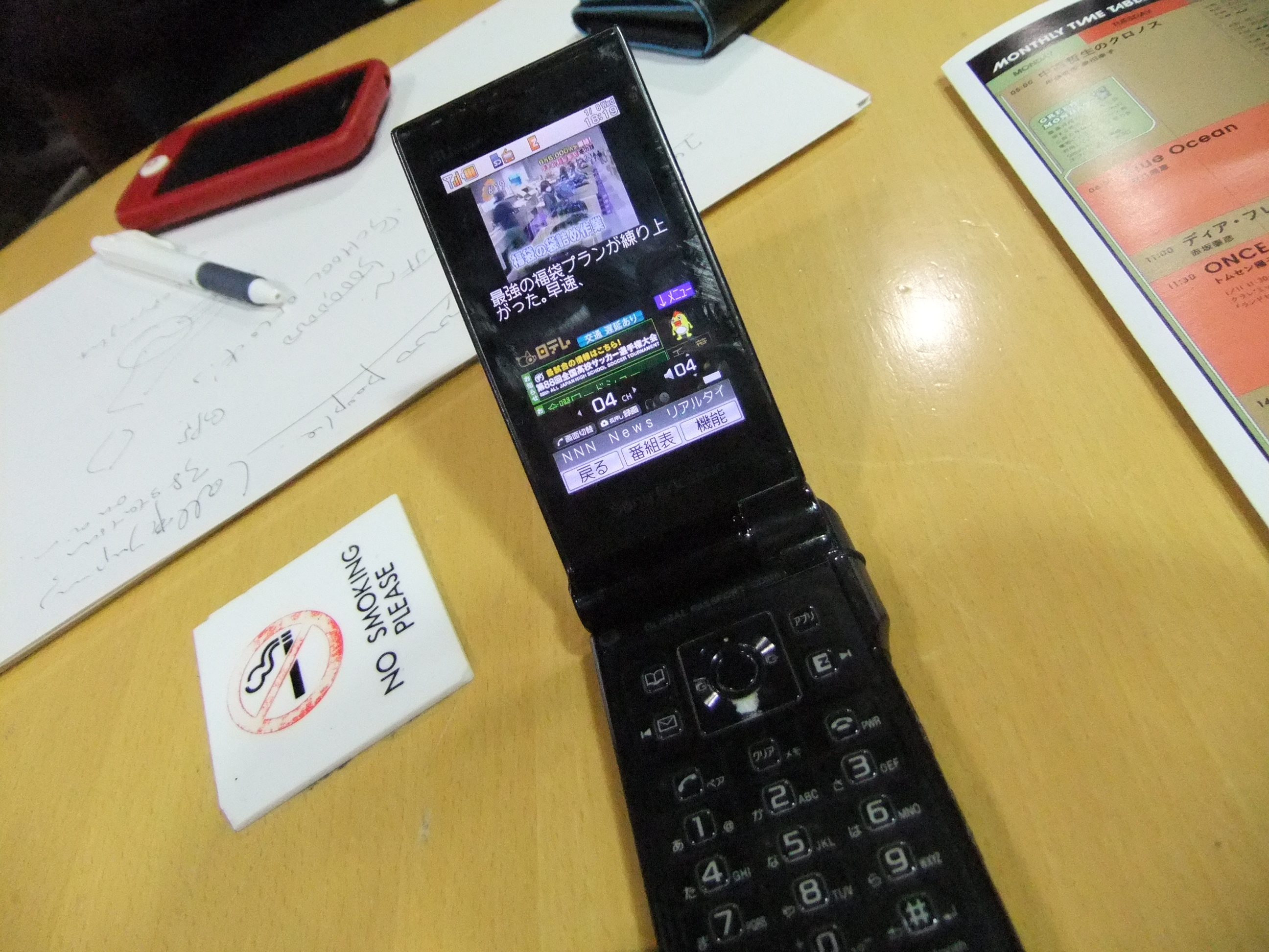 This is broadcast, and not carried over the cellular network.